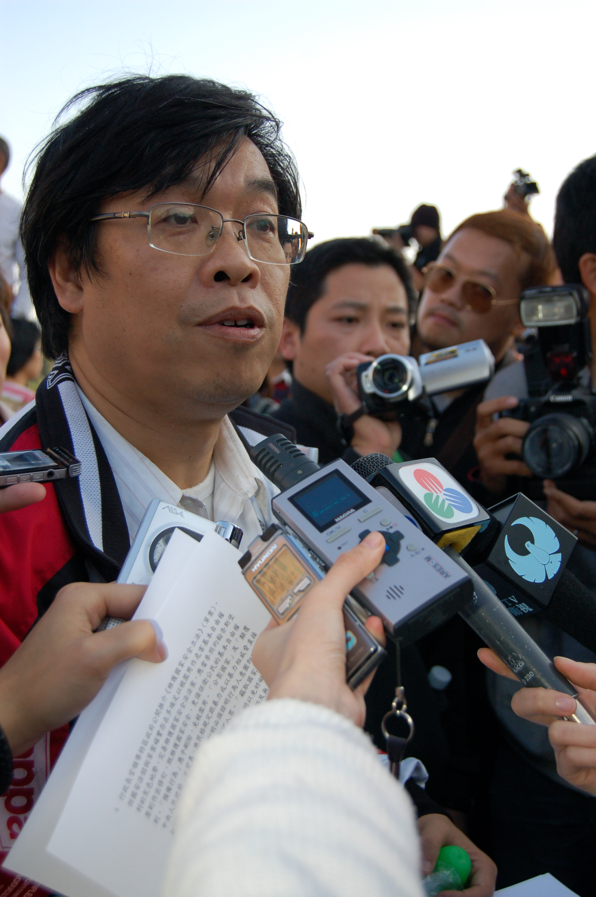 Ng Kuok Cheong António